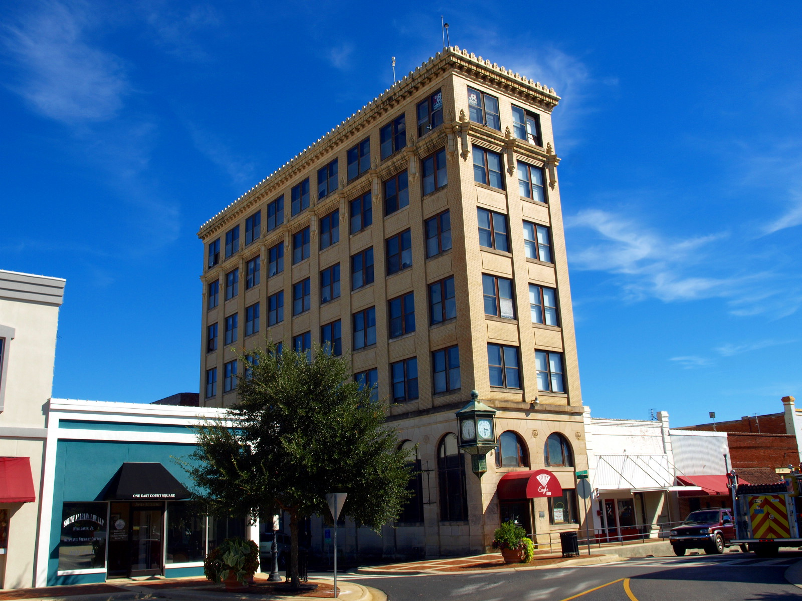 The First National Bank Building in Andalusia, Alabama, listed on the National Register of Historic Places